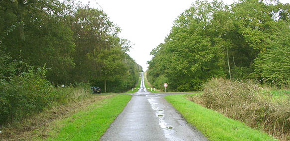 ecological fragmentation by roads, factor of roadkill, in Forest of Rihoult-Clairmarais near Saint-Omer in the north of France.